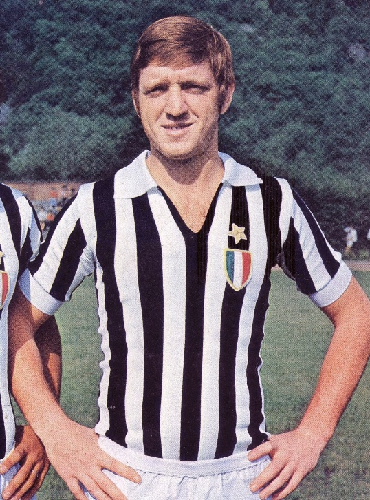 Italian footballer Giuliano Musiello with Juventus F.C. in the 1973–74 season.